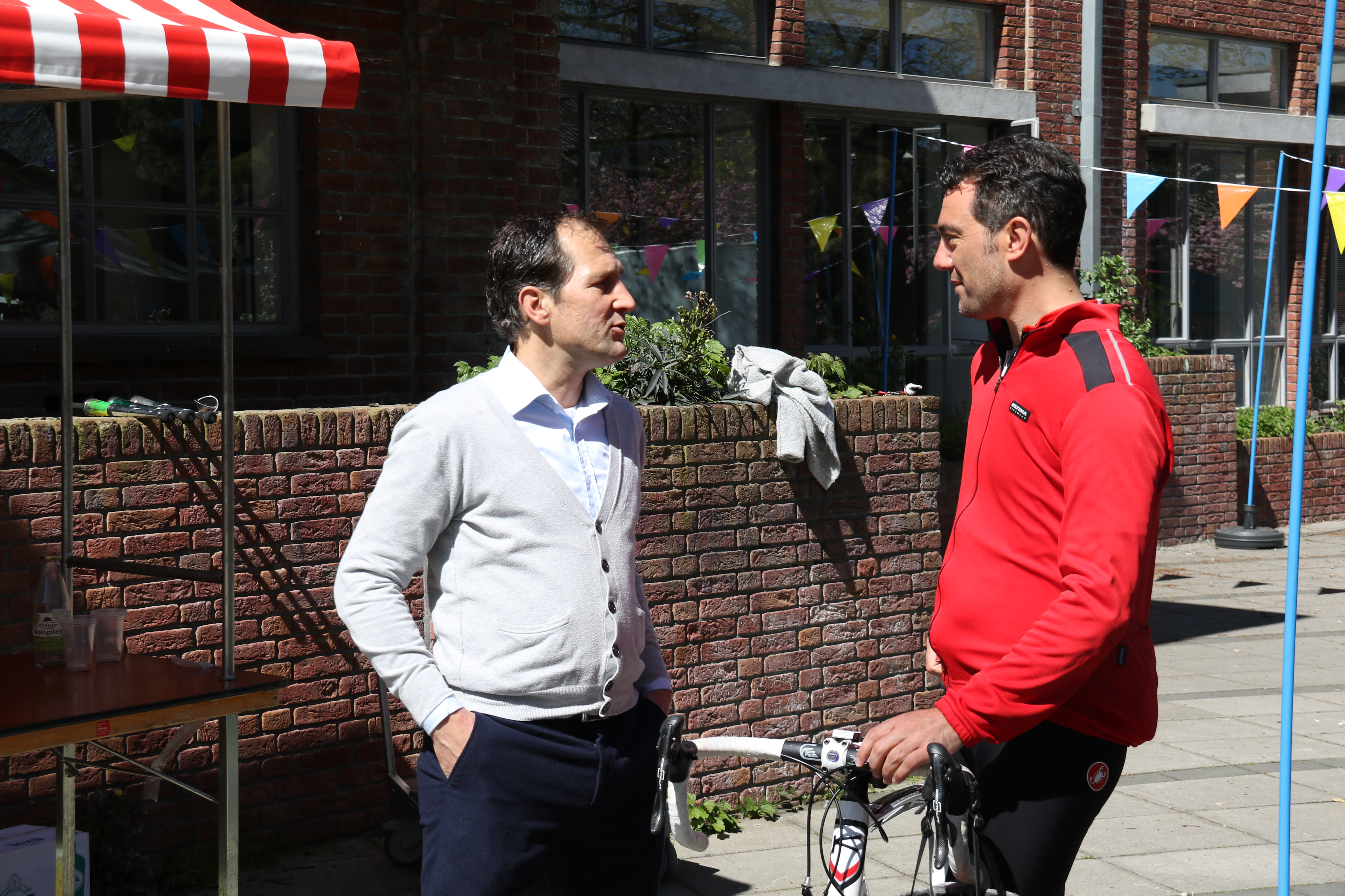 Oud wielrenner Jeroen Blijlevens geeft een wielrenclinic. Foto: Victor Devillers